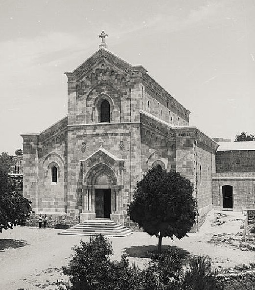 Franciscan Church of Emmaus (House of St. Cleophas) in El-Qubeibeh (Palestinian territories).